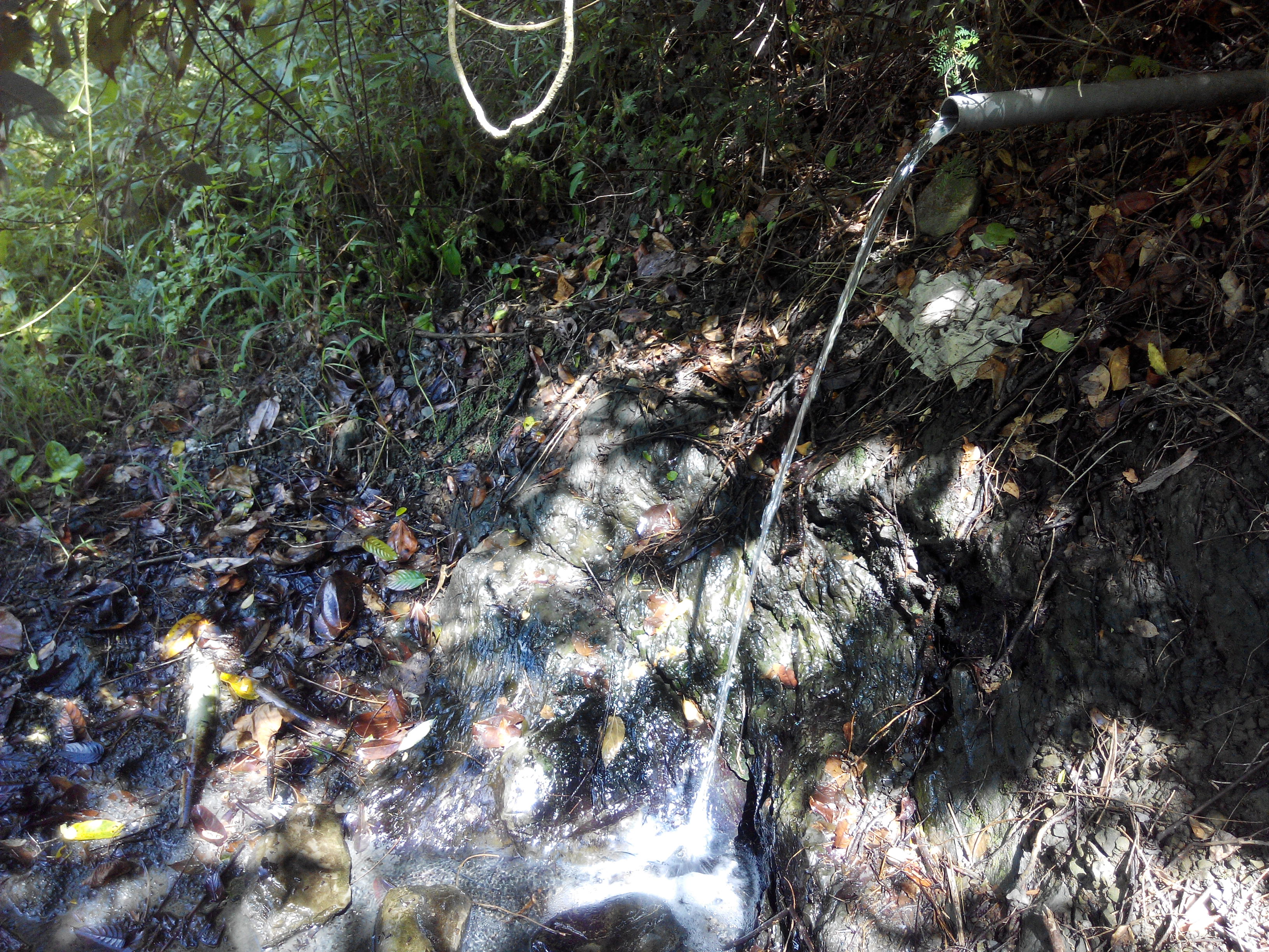 Liji Hot Spring First Outcrop